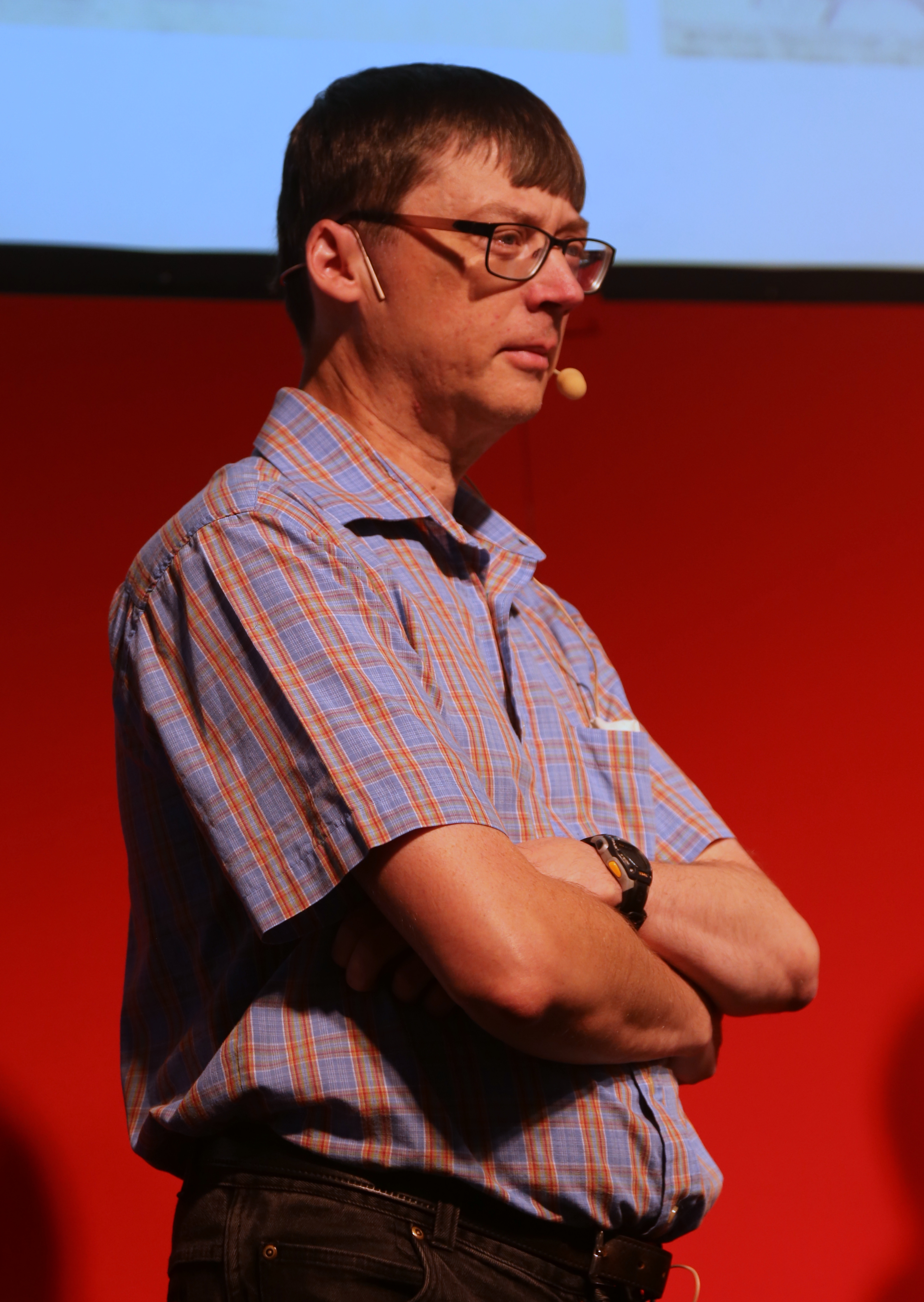 Stefan Diös at Seriescenen with Germund von Wowern and Joakim Gunnarsson at the Gothenburg Book Fair 2014.